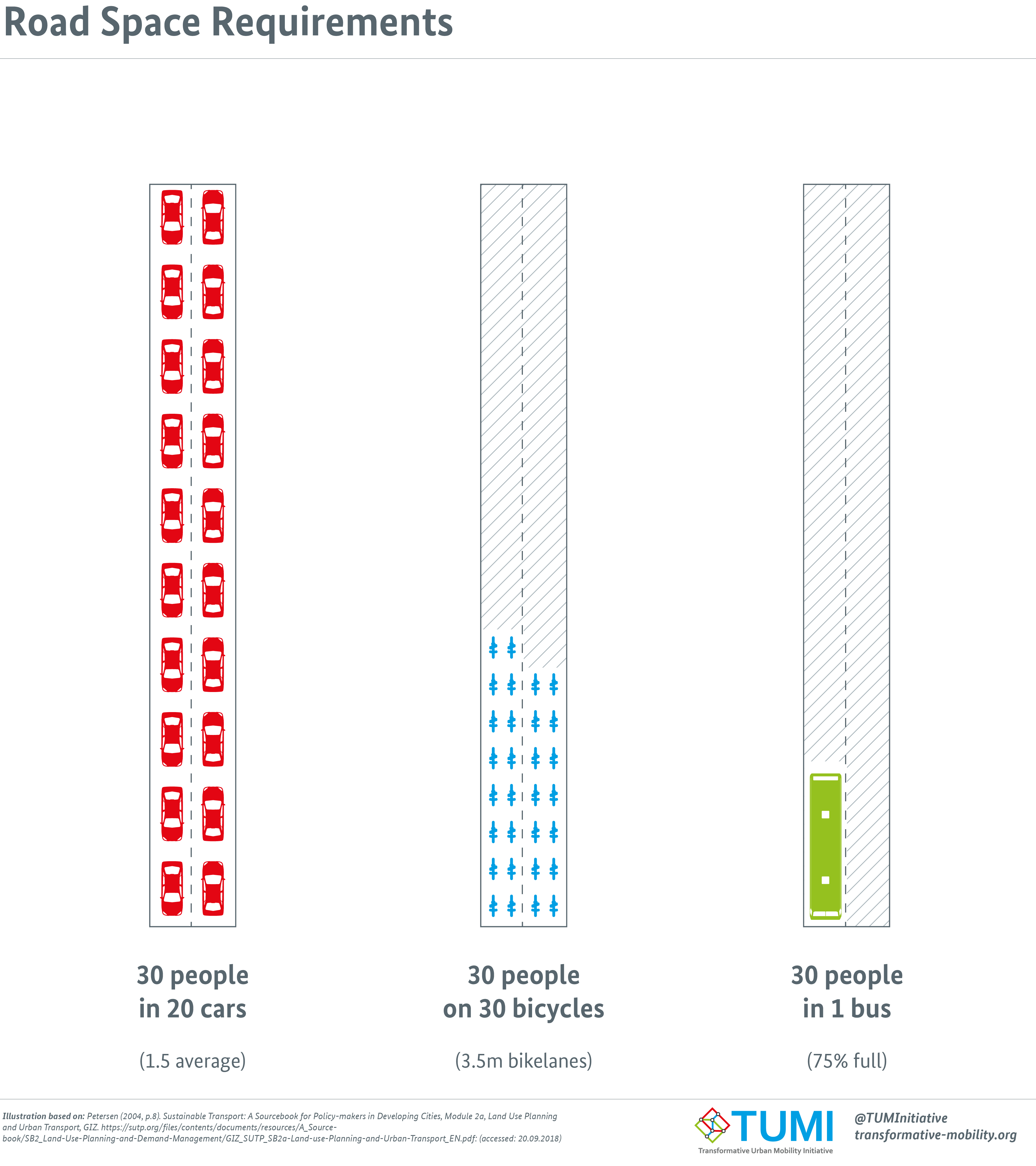 Road Space Requirements 30 people in 20 cars 30 people on 30 bicycles 30 people in 1 bus Transformative Urban Mobility Initiative (TUMI)